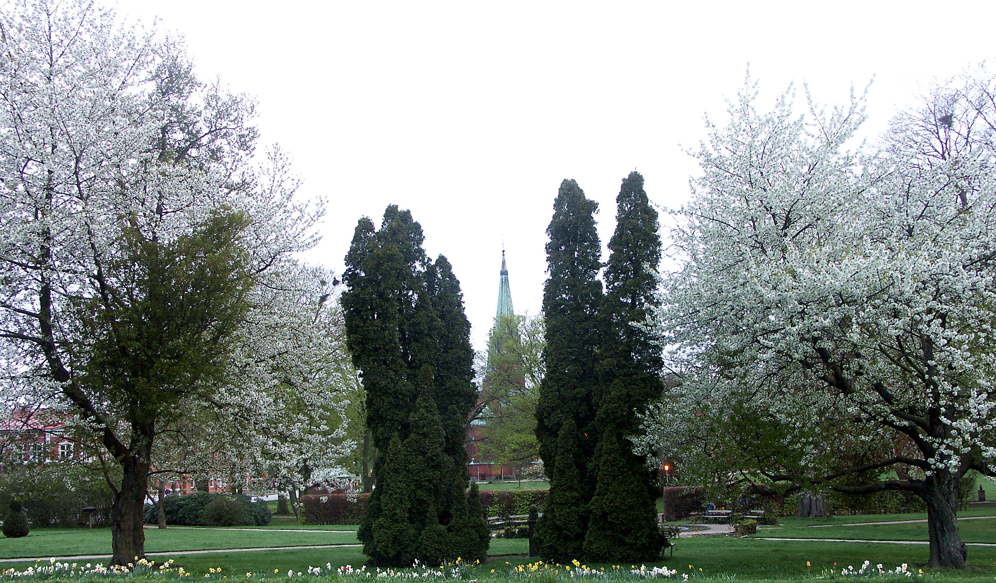 Stadsparken, urban park in Eslöv, Sweden.